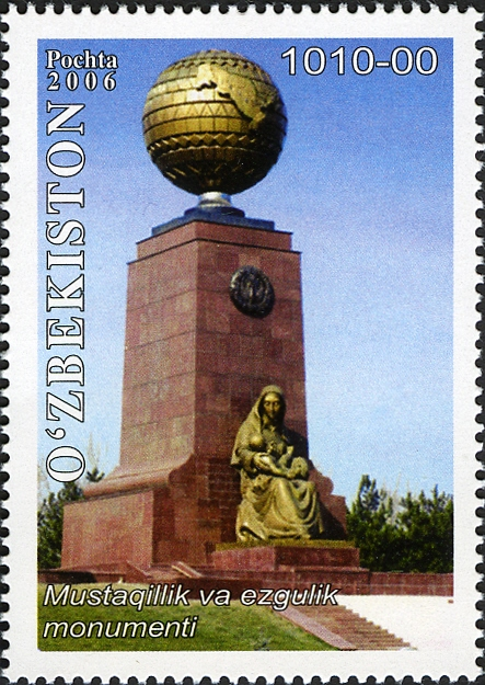 Stamps of Uzbekistan, 2006